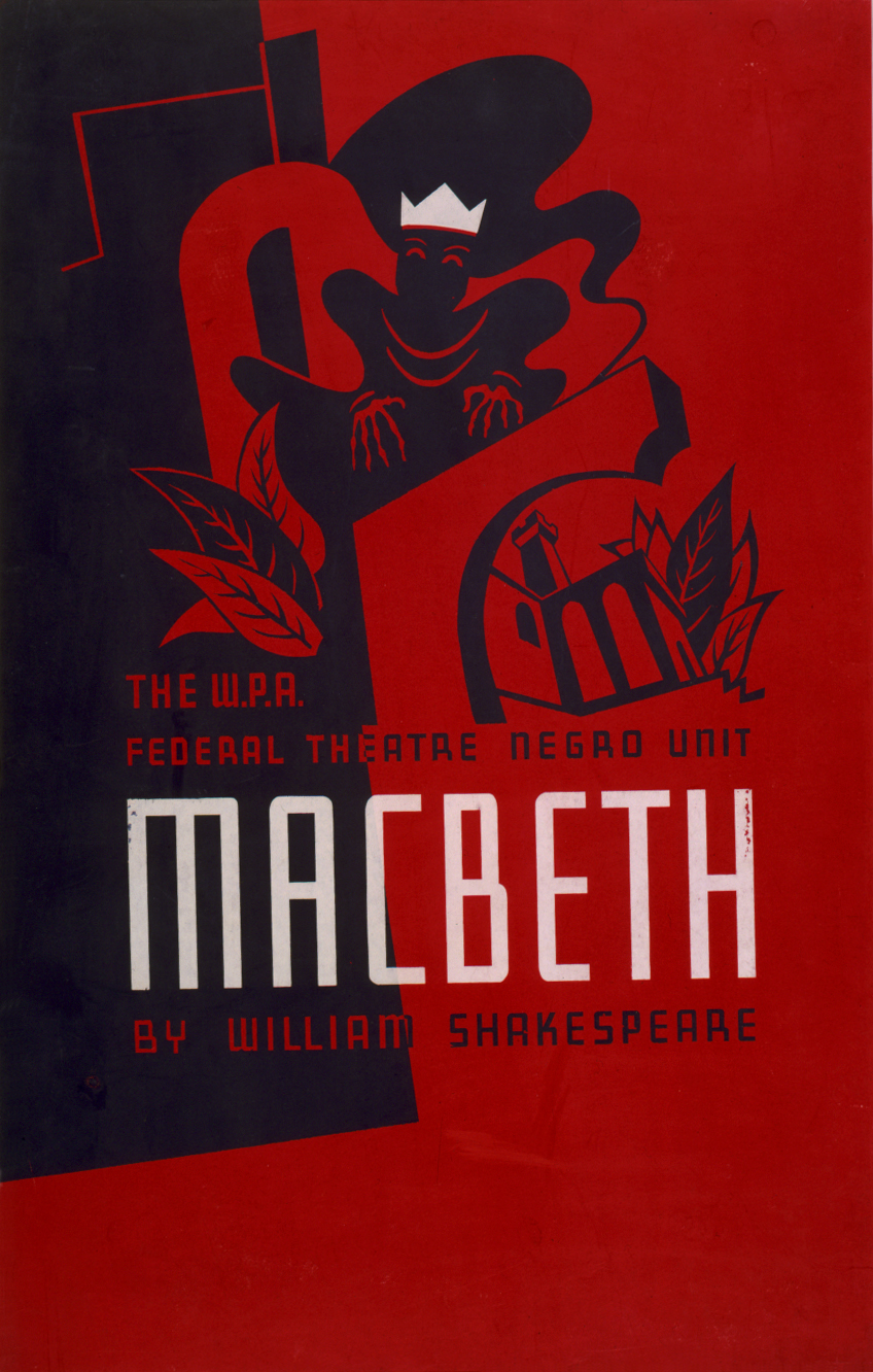 Facsimile of color silkscreen poster for Federal Theatre Project presentation of "Macbeth" by William Shakespeare. Reproduction Number: LC-USZC4-2028 (color film copy transparency)